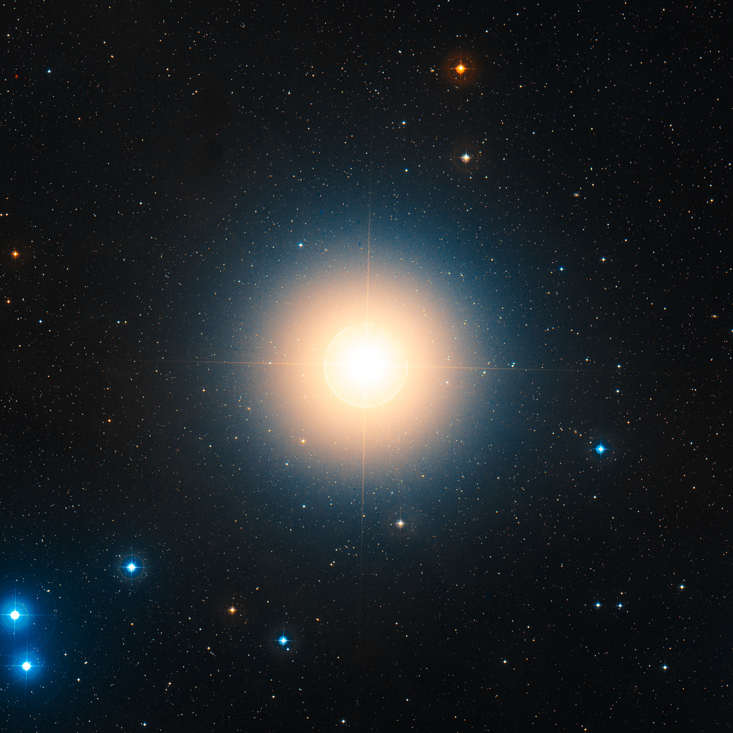 Picture of Aldebaran. Cropped from File:Hyades cluster.jpg